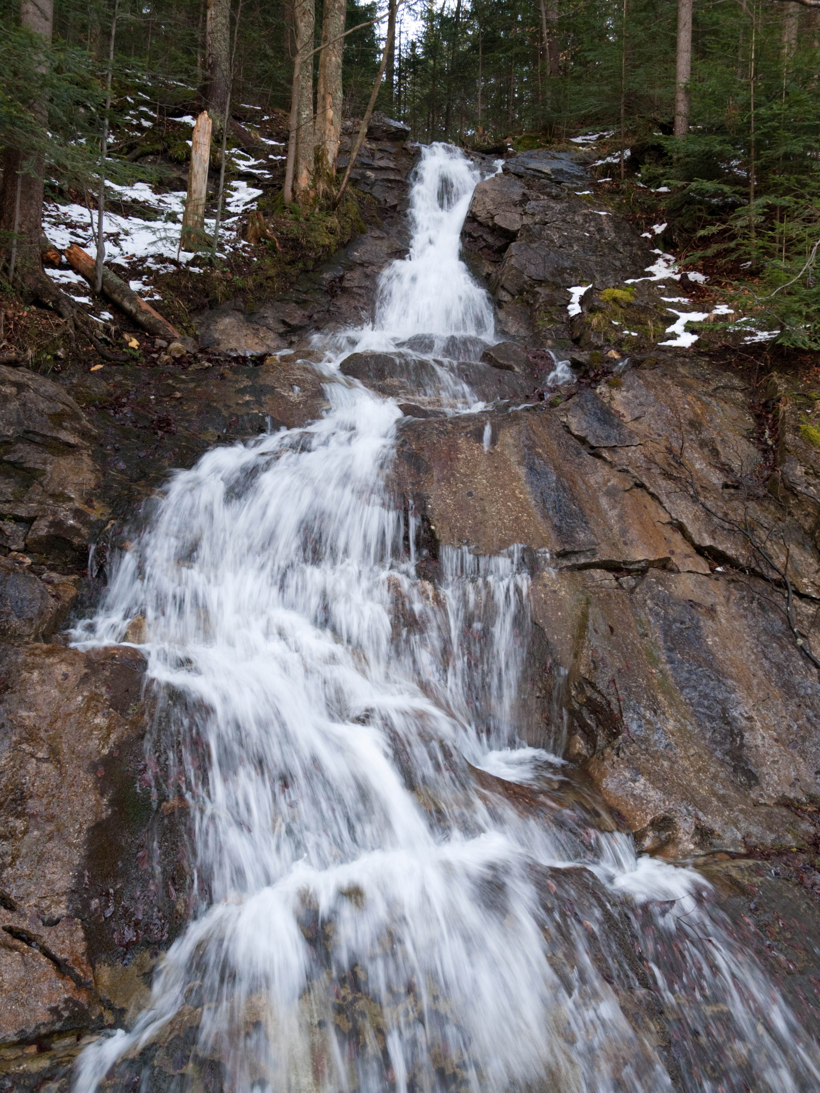 A small waterfall on Spadowiec stream – view from Droga pod Reglami.